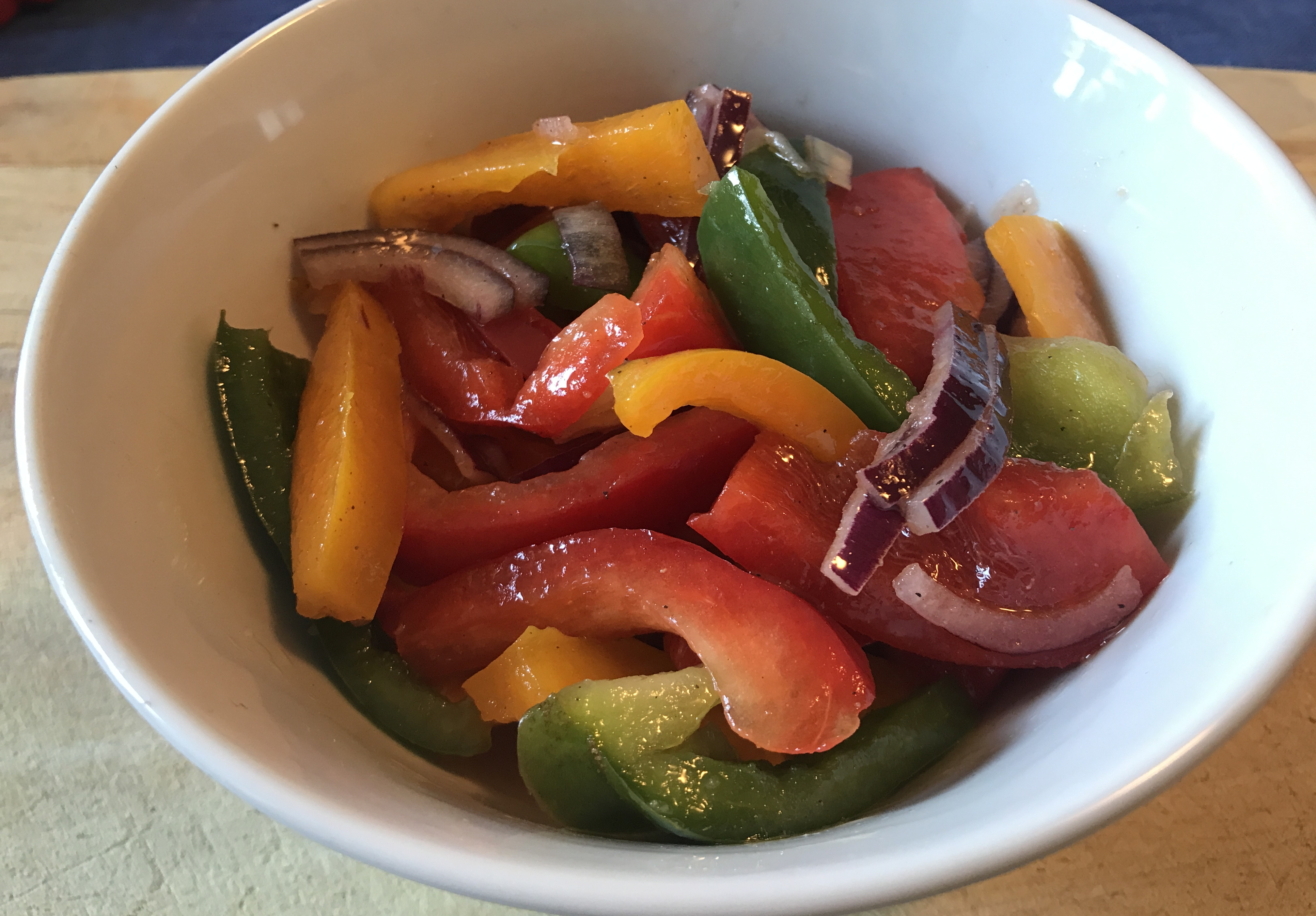 bell pepper salad with onions